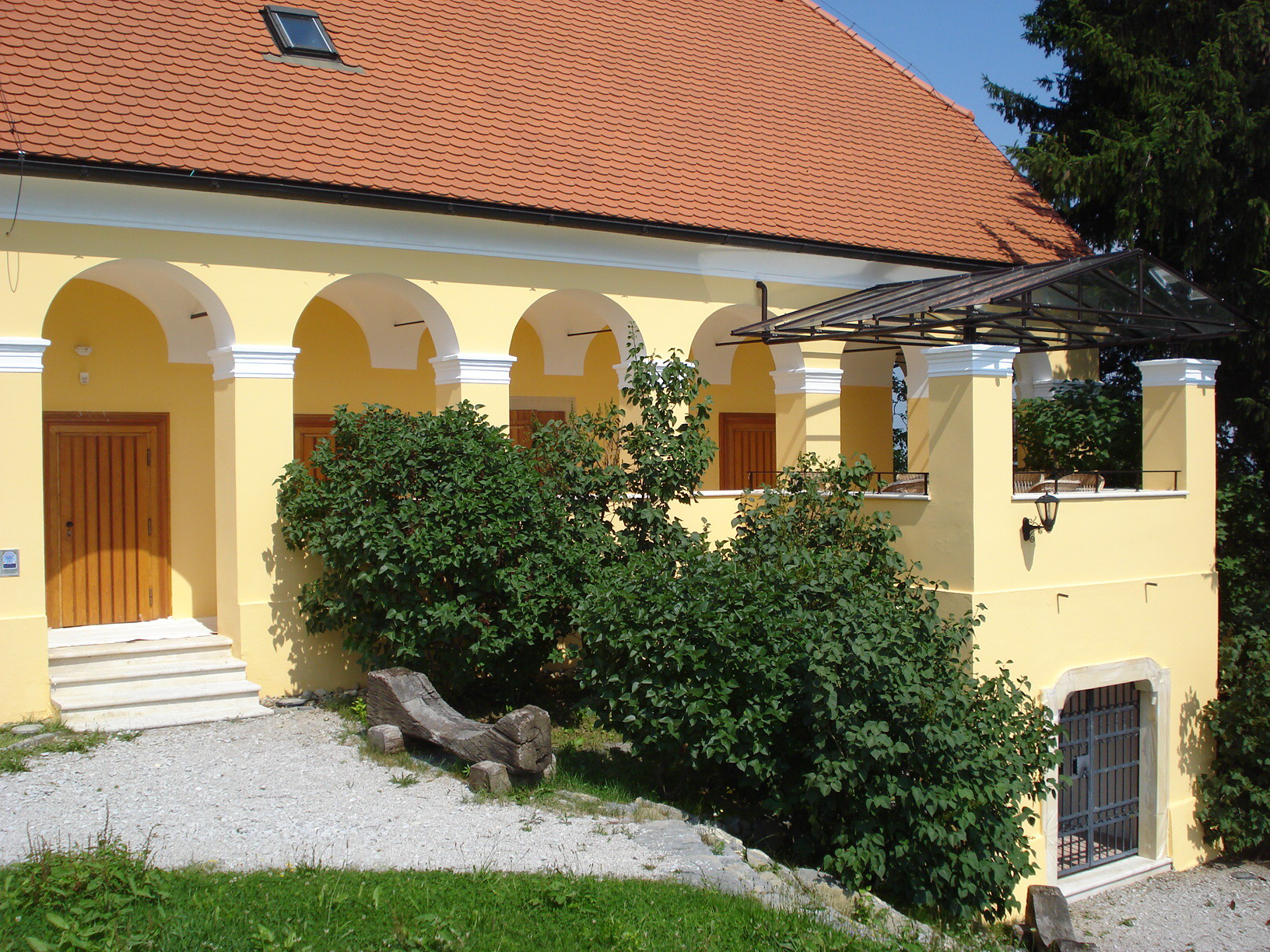 Tkalec Manor in Štrigova - entrance